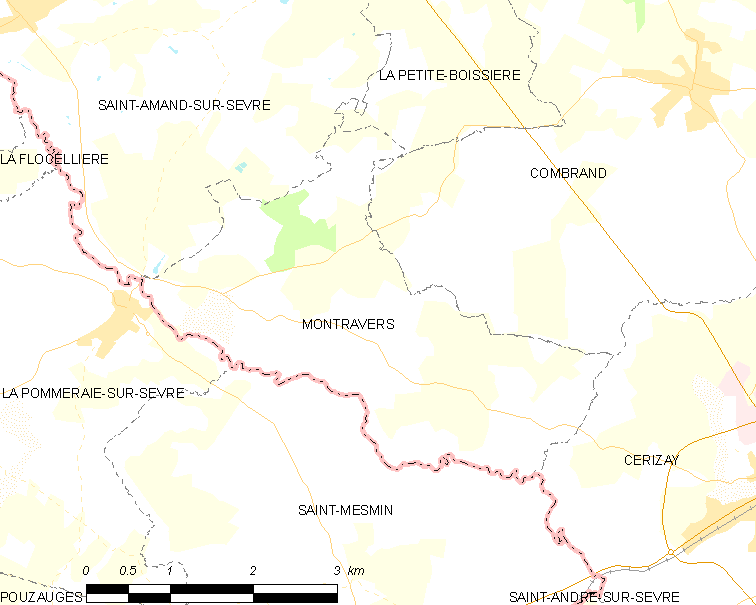 Map of French municipality Montravers